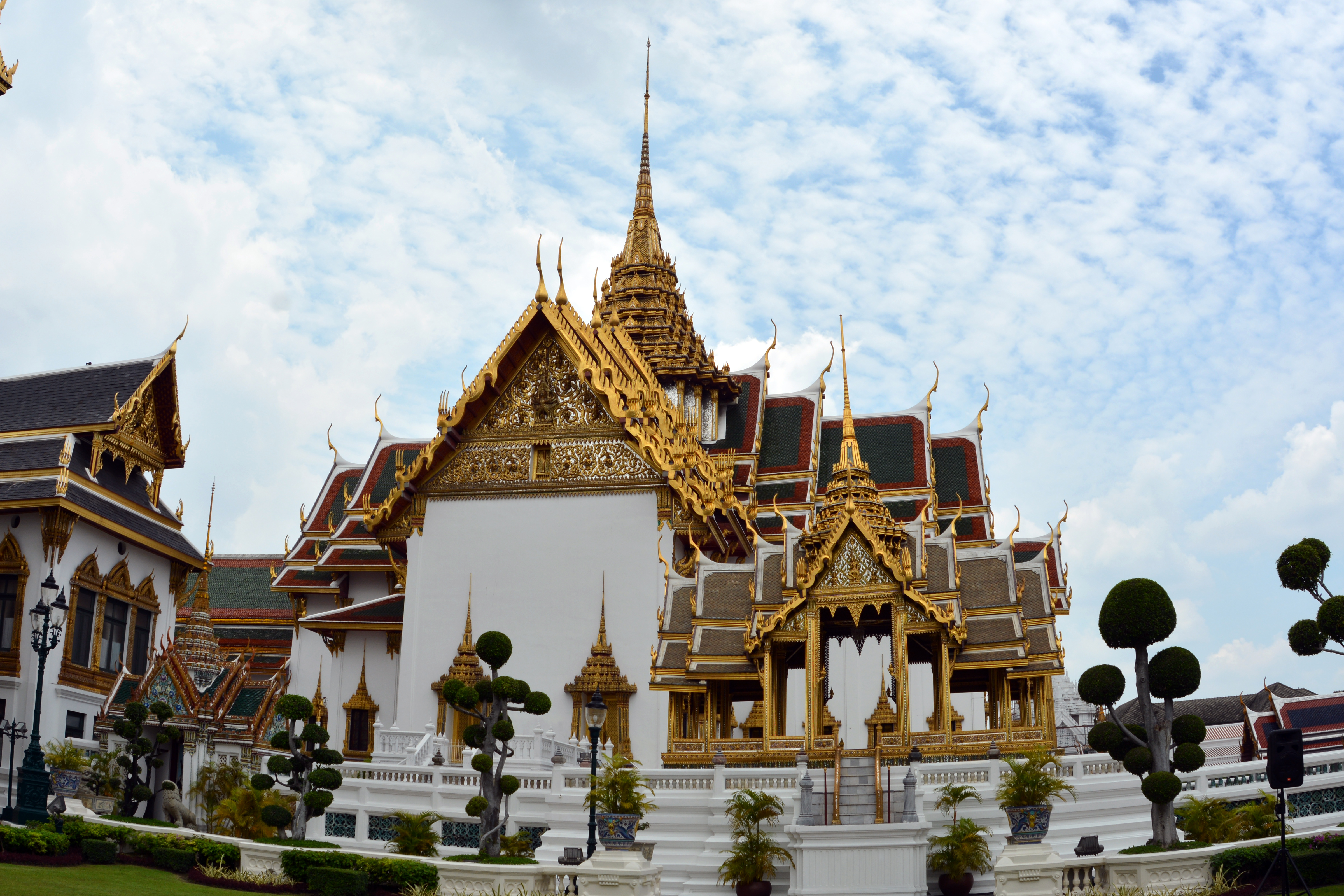 Phra Thinang Borom Ratchasathit Mahoran